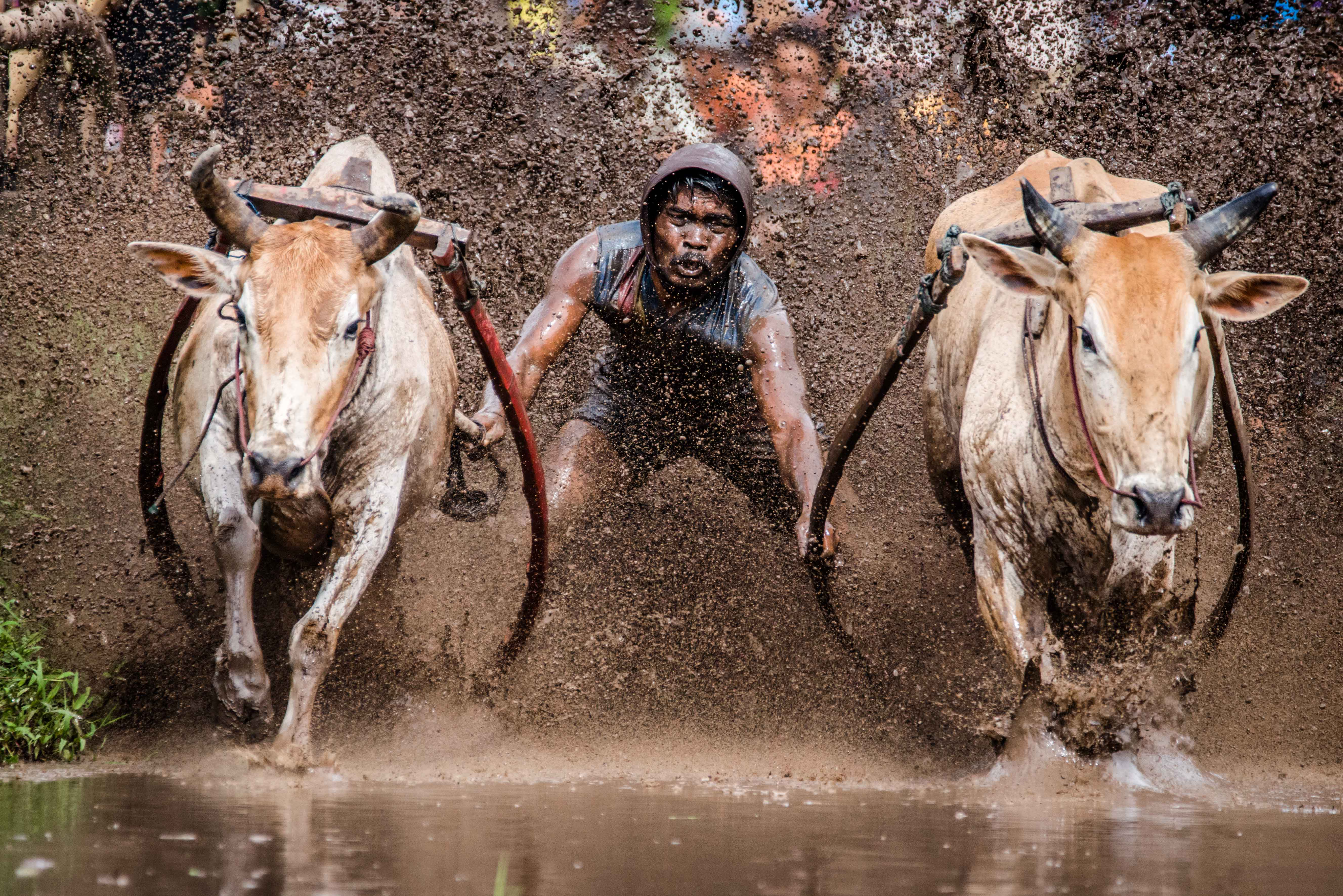 Two bulls running while the jockey holds on to them in pacu jawi (from Minangkabau, "bull race"), a traditional bull race in Tanah Datar, West Sumatra, Indonesia. 2015, Final-45.